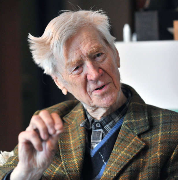 Portrait of the Norwegian high school teacher, poet and playwright Hans Kristiansen, aged 97 at the time. He lives in Trondheim, Norway